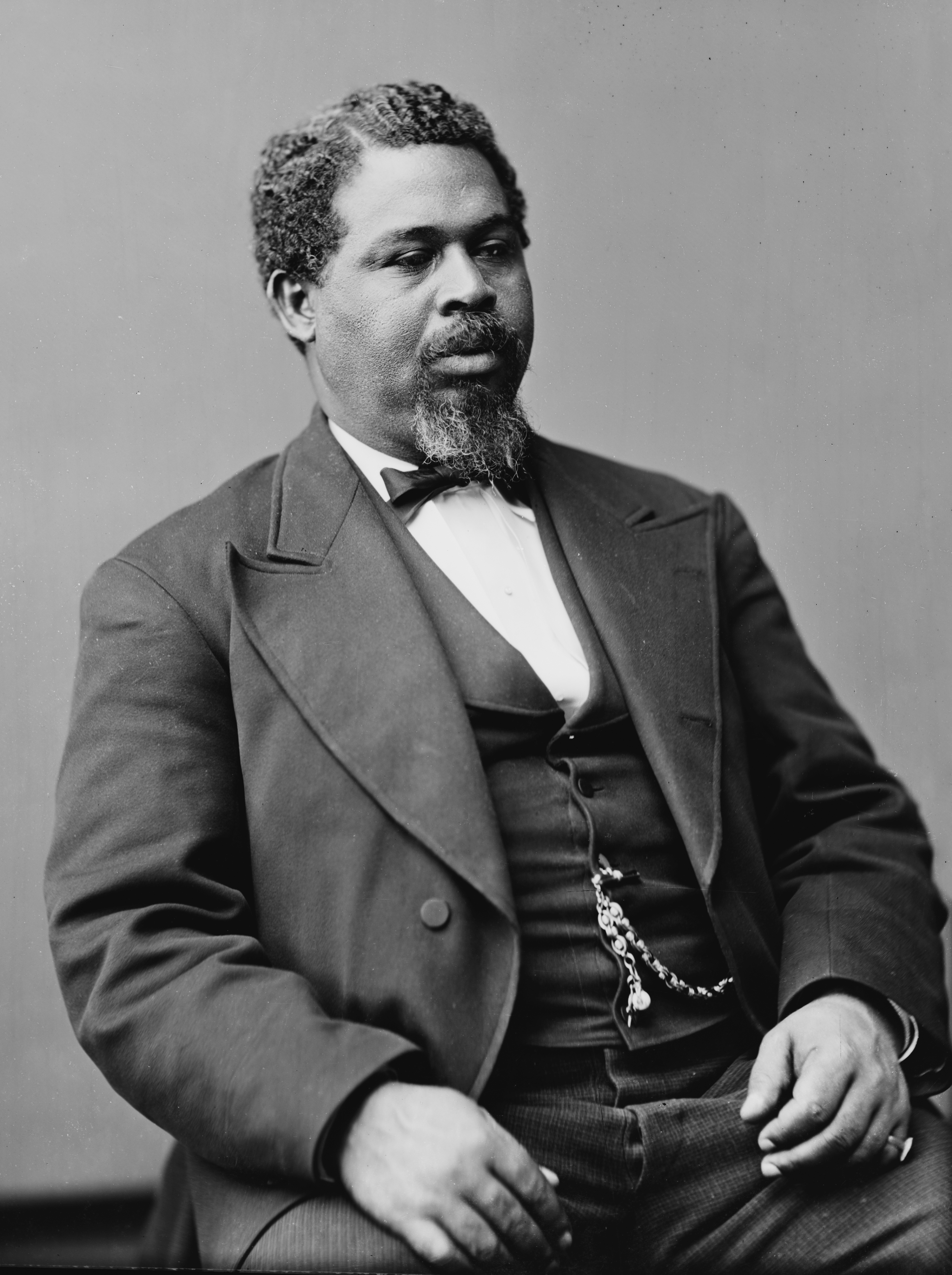 Robert Smalls. Library of Congress description: "Robert Smalls, S.C. M.C. Born in Beaufort, SC, April 1839".